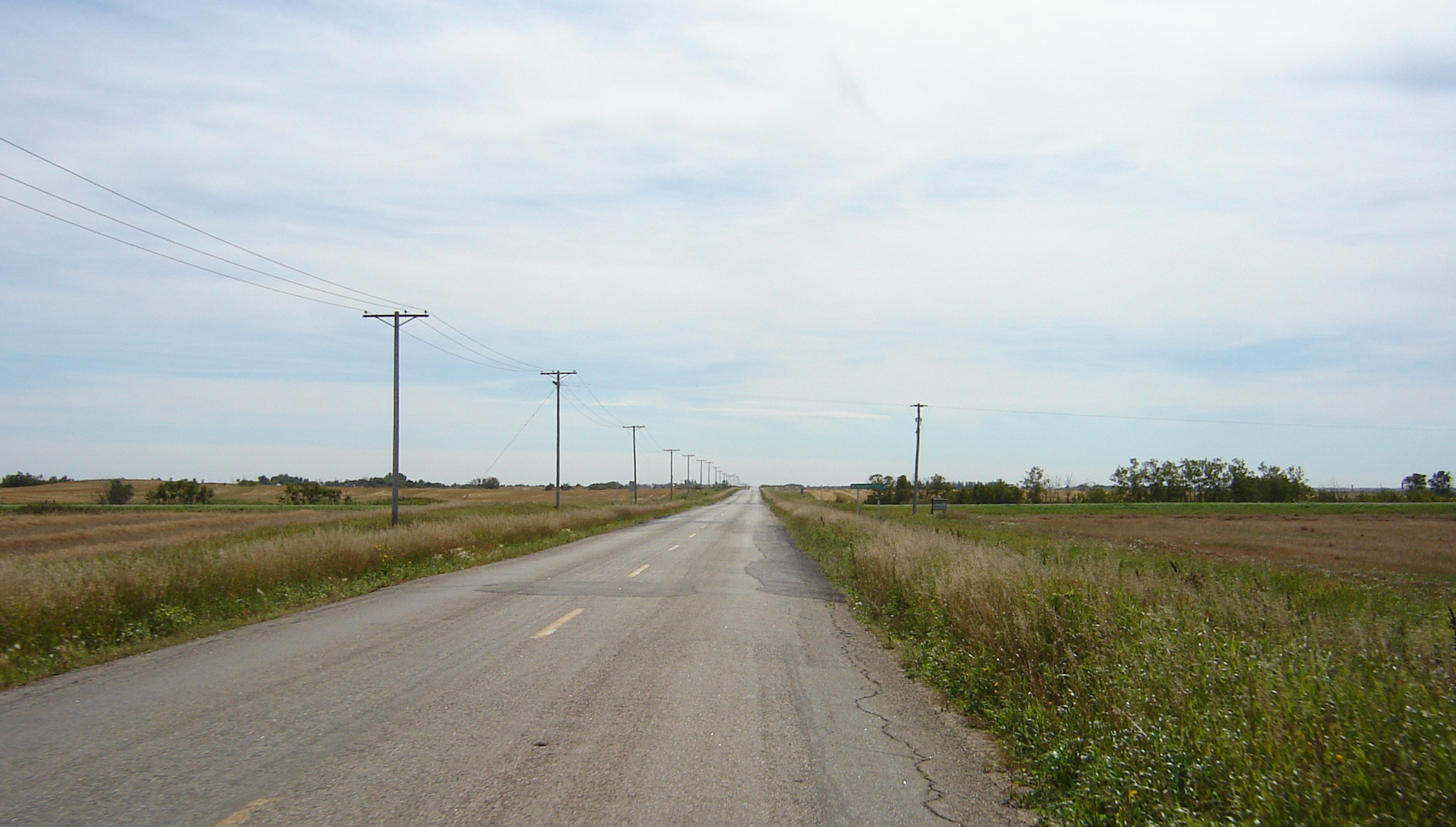 Sk Hwy 35 Between Fort Qu'Appelle and Qu'Appelle Saskatchewan